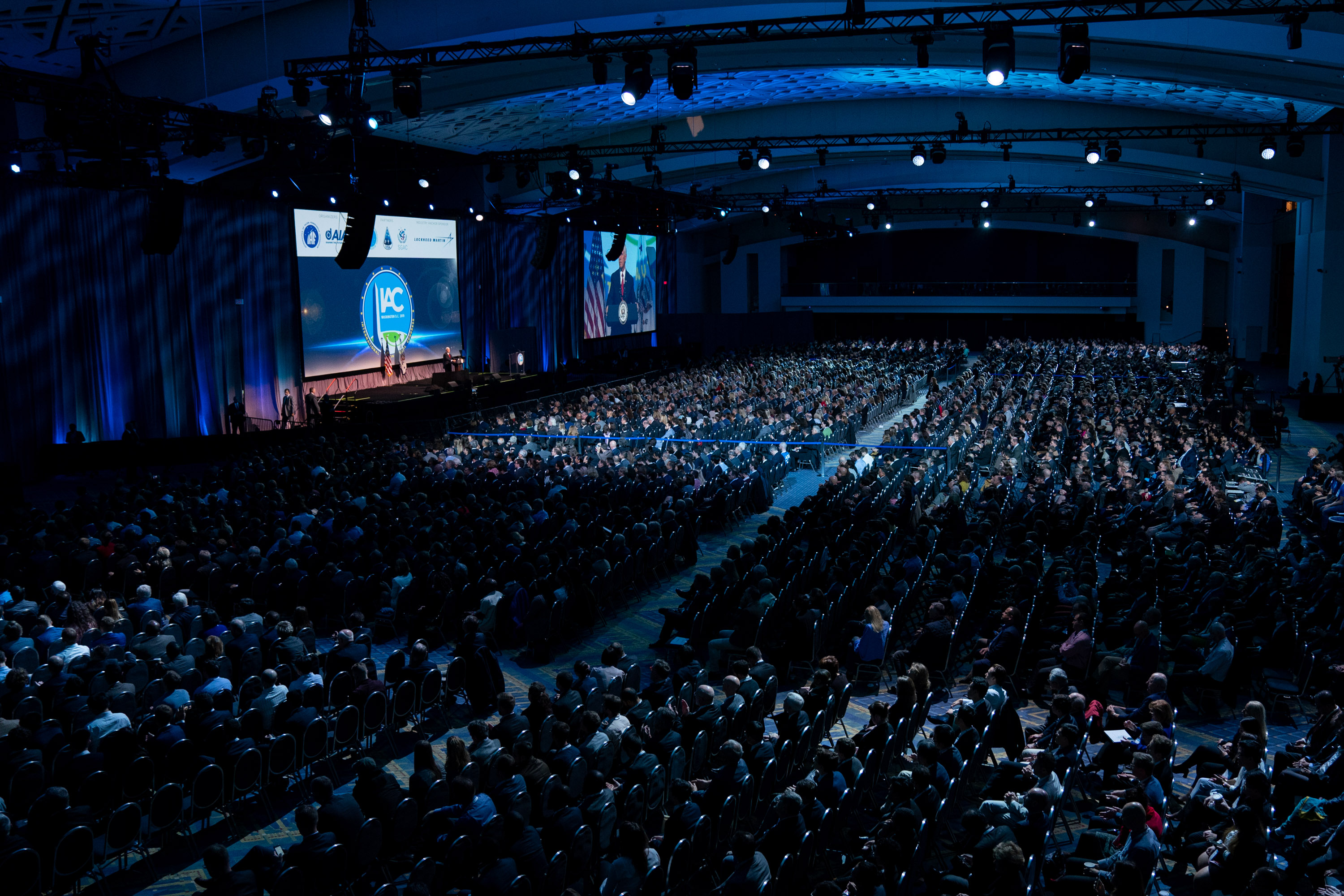 Vice President Mike Pence delivers remarks at the 2019 International Astronautical Congress Opening Ceremony Monday, Oct. 21, 2019, at the Walter E. Washington Convention Center in Washington, D.C. (Official White House photo by D. Myles Cullen)